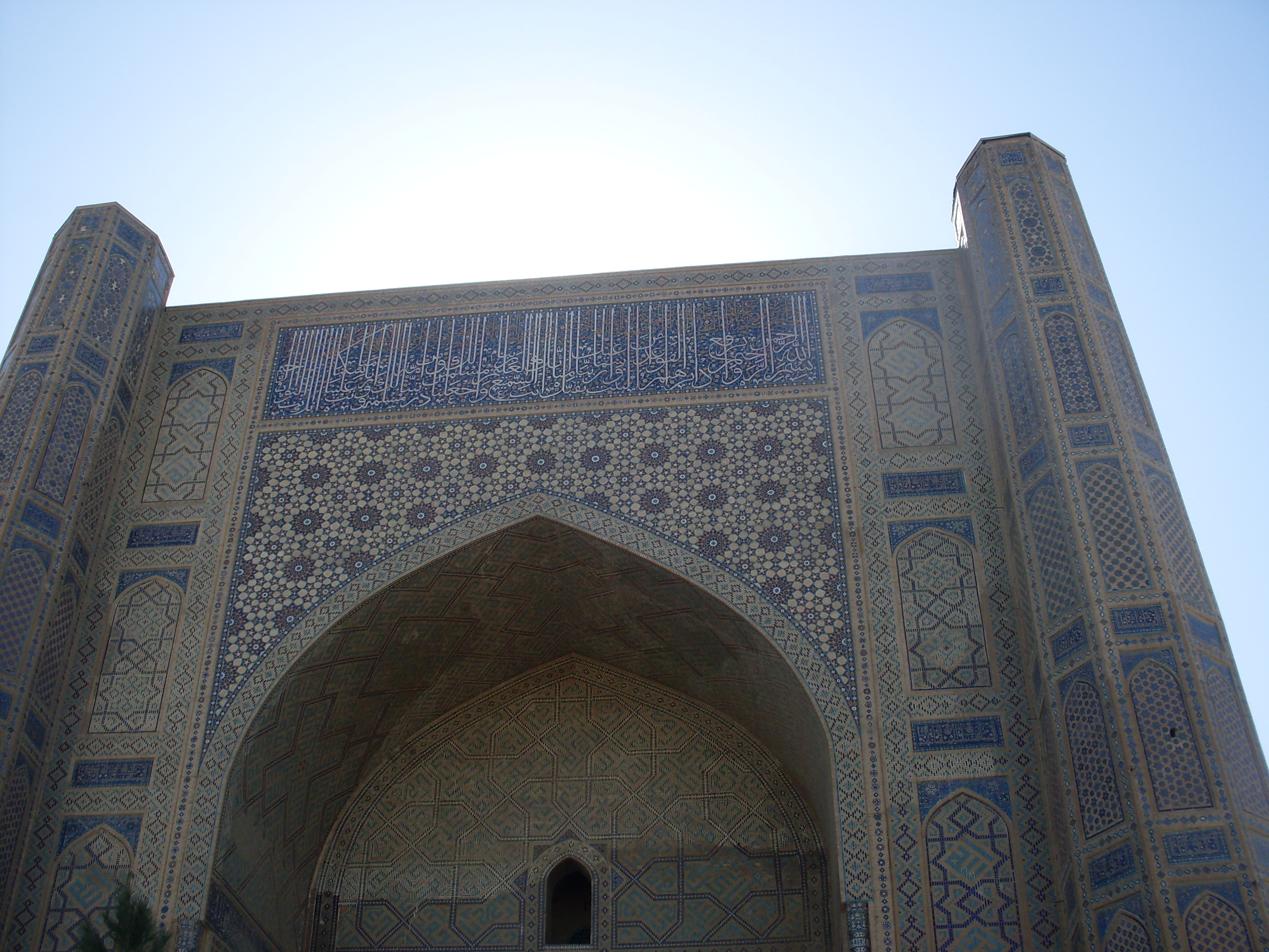 Mosque Bibi-Khanum мечеть second portal